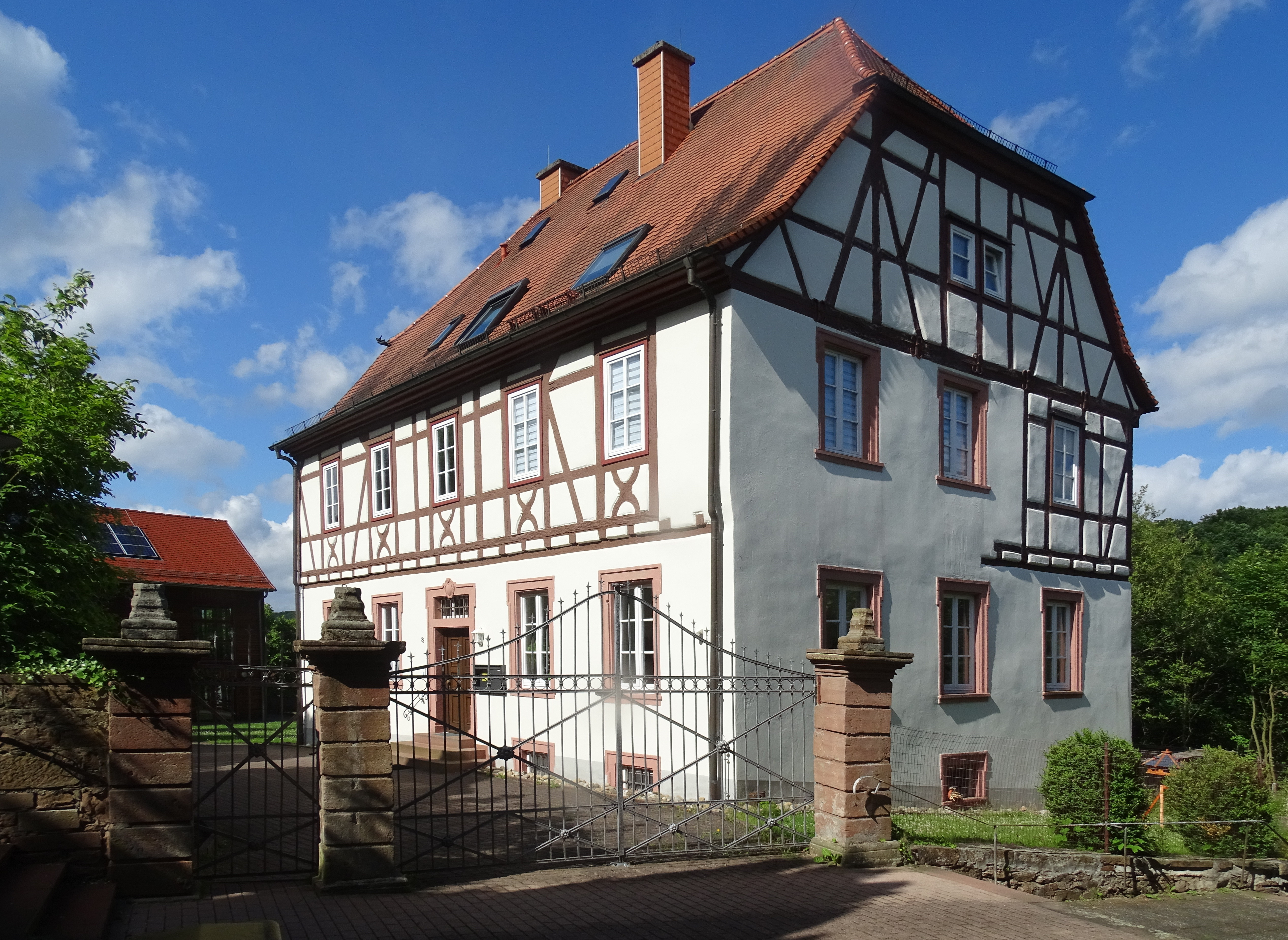 Former catholic rectory in Krombach, Schulberg 8